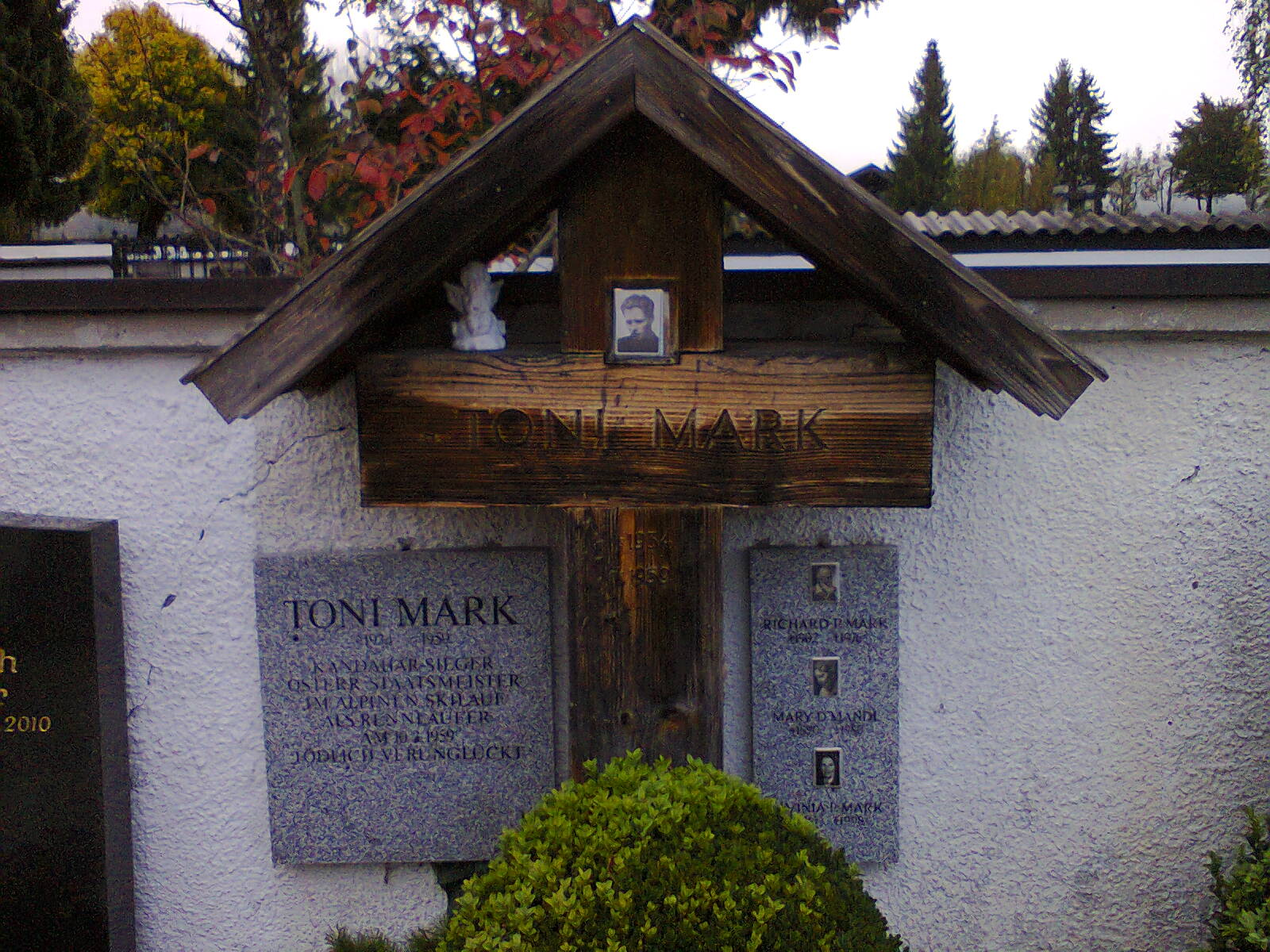 Toni Mark grave Saalfelden 1